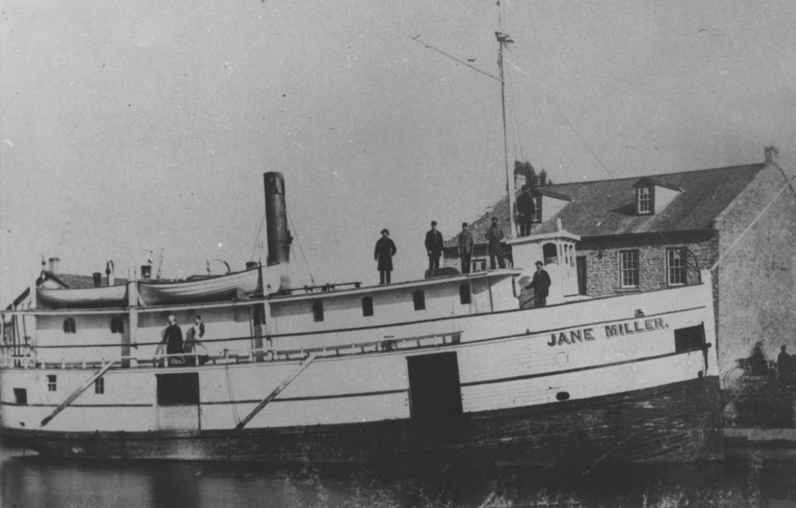 The steamer Jane Miller prior to her sinking